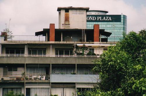 Dorerin Naoero: The rooftop of 22 Gia Long Street, Saigon. The scene of Hubert van Es' famous photo from the Fall of Saigon of an Air America Bell 205 (N47004) evacuating Vietnamese on 29 April 1975. The photo location is often incorrectly stated to be the roof of the US Embassy, Saigon.